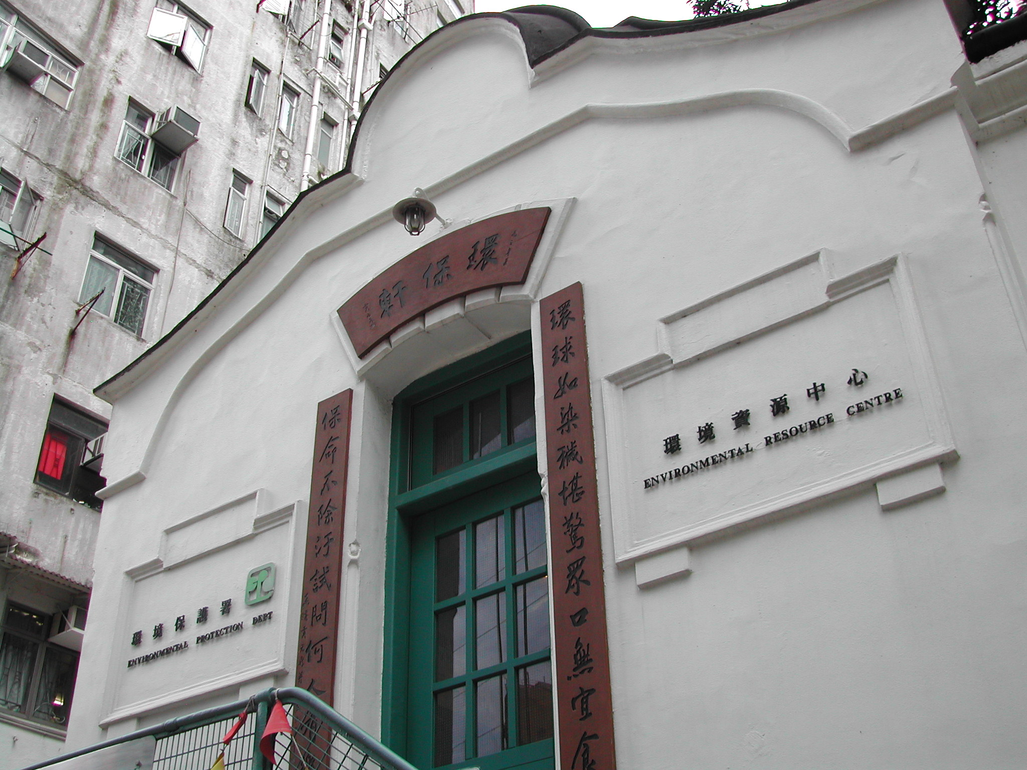 Photoed by Jerry Crimson Mann 17:36, 5 Jun 2005 (UTC). 2005. Category:Images of Hong Kong